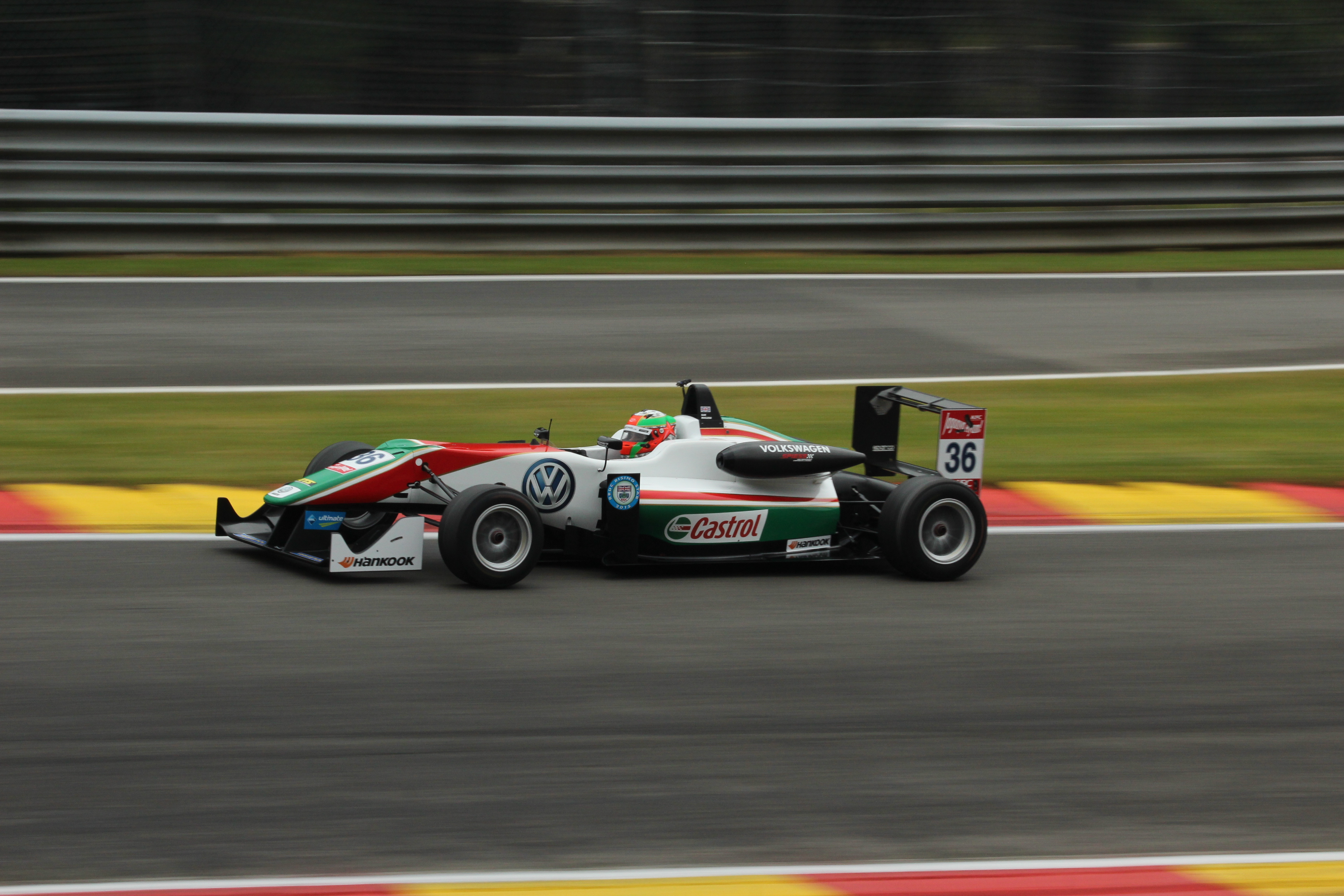 Sam MacLeod at Spa in 2015, European Formula 3 Championship